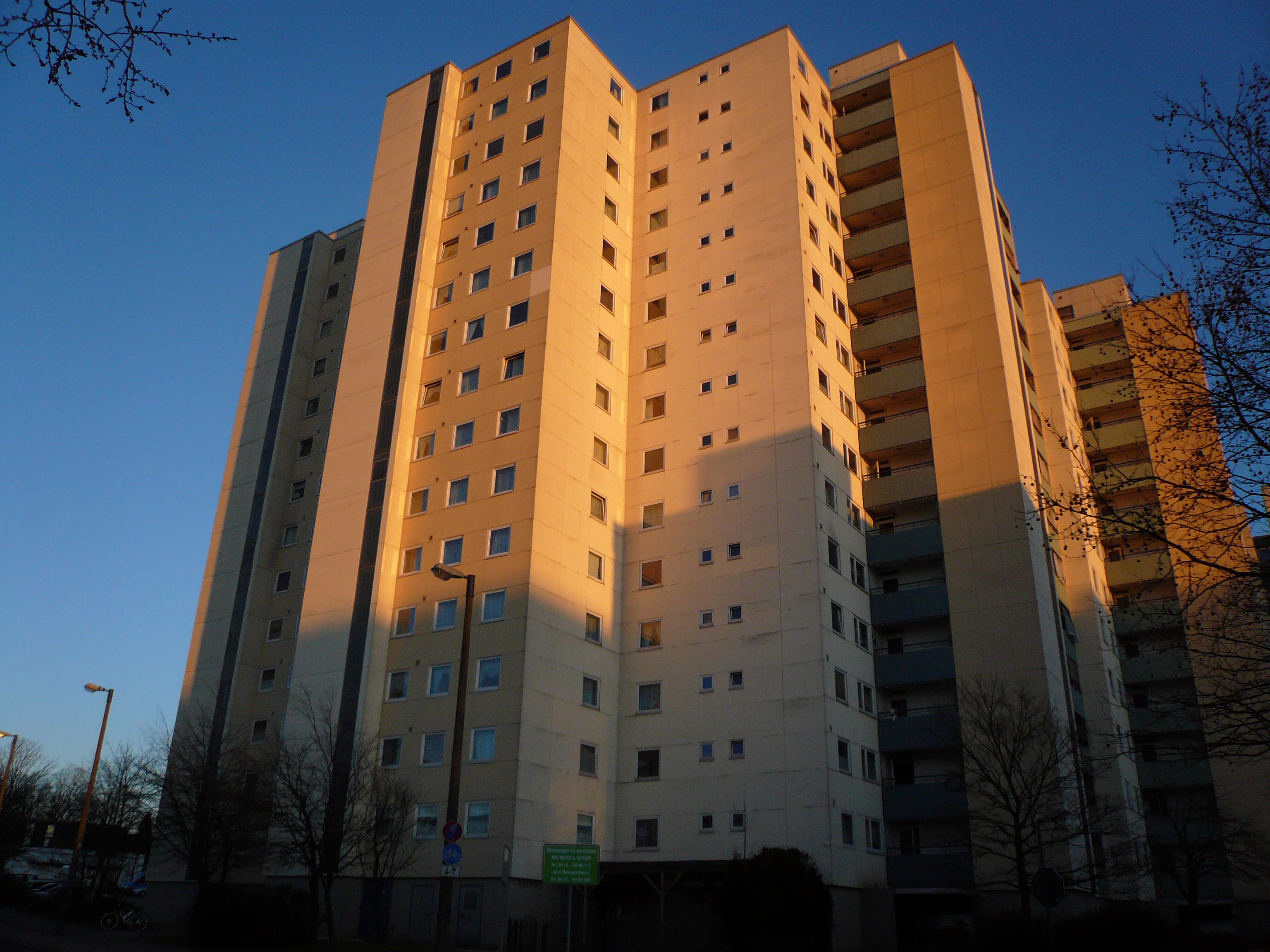 A high-rise in the housing estate "Grohner Düne" in Bremen, Germany